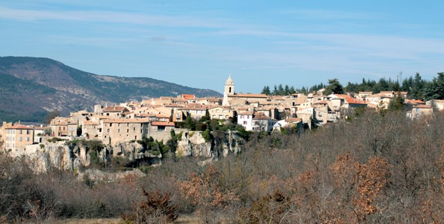 the village of Sault, France